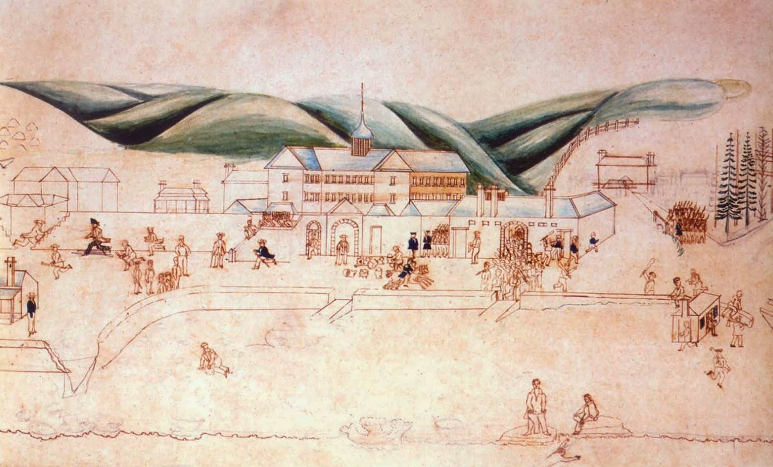 Drawing of the Cooking Pot Riot, 1846, Norfolk Island.